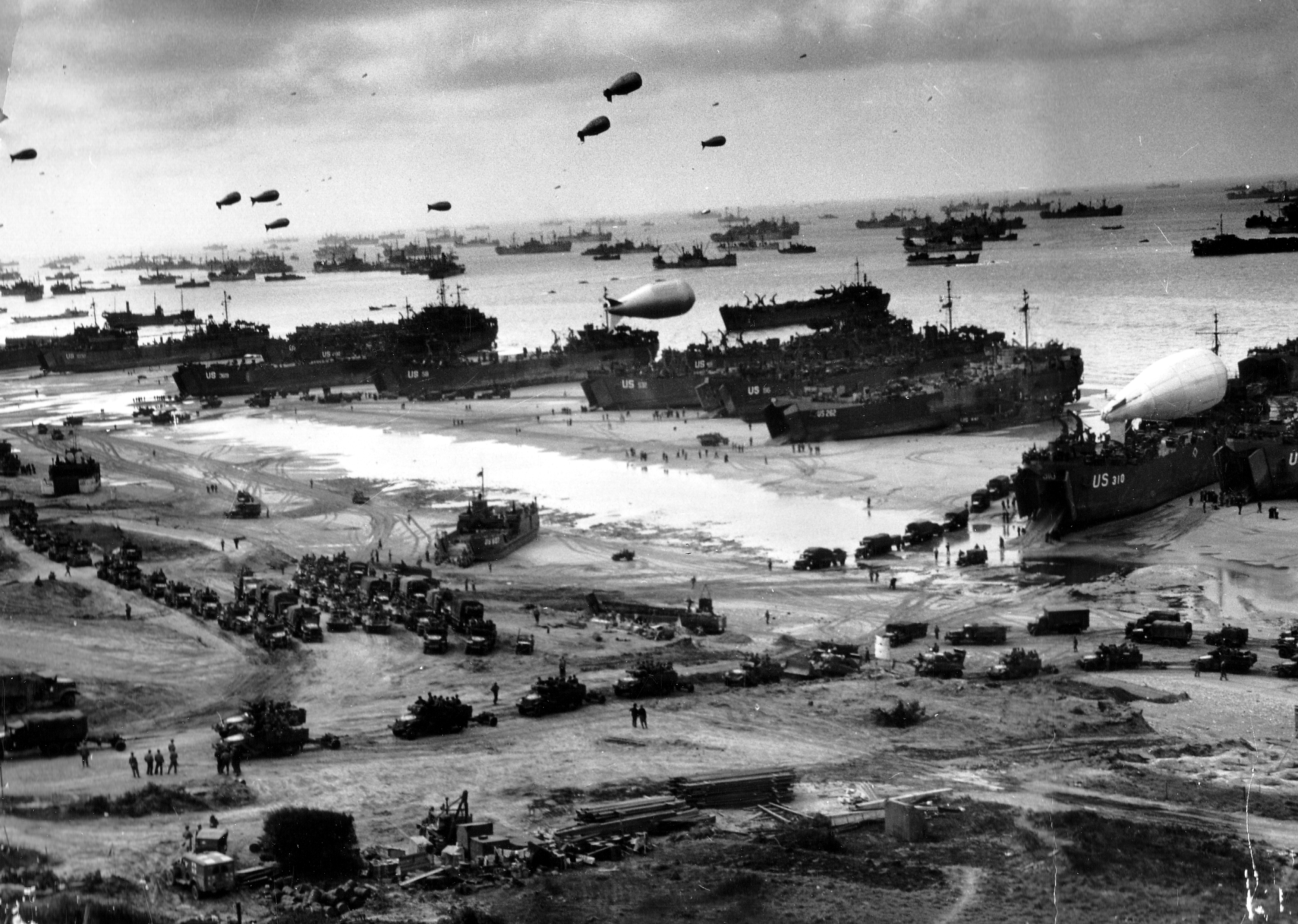 Normandy Invasion, June 1944. Landing ships putting cargo ashore on one of the invasion beaches, at low tide during the first days of the operation, June 1944. Among identifiable ships present are USS LST‑532 (in the center of the view); USS LST‑262 (third LST from right); USS LST‑310 (second LST from right); USS LST‑533 (partially visible at far right); and USS LST‑524. Note the barrage balloons overhead and Army "half-track" convoy forming up on the beach. Probably on June 9, see The Americans on D-Day: A Photographic History of the Normandy Invasion by Martin K. A. Morgan. Probably on June 9 or June 10, see p012623 at flickr.